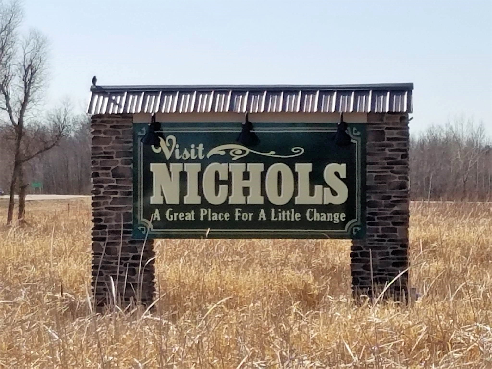 Marketing welcome signage for Nichols, Wisconsin along WIS 47